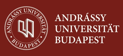 Andrássy Universität Budapest Logo